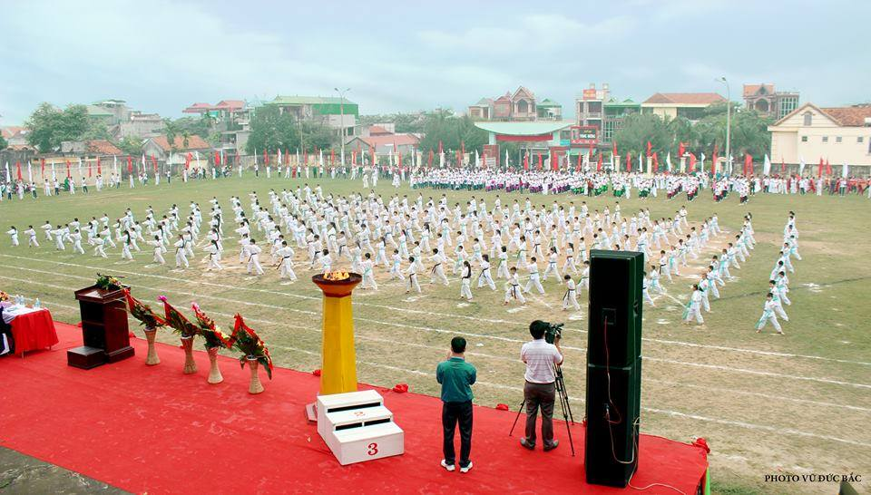 ĐôngTriều